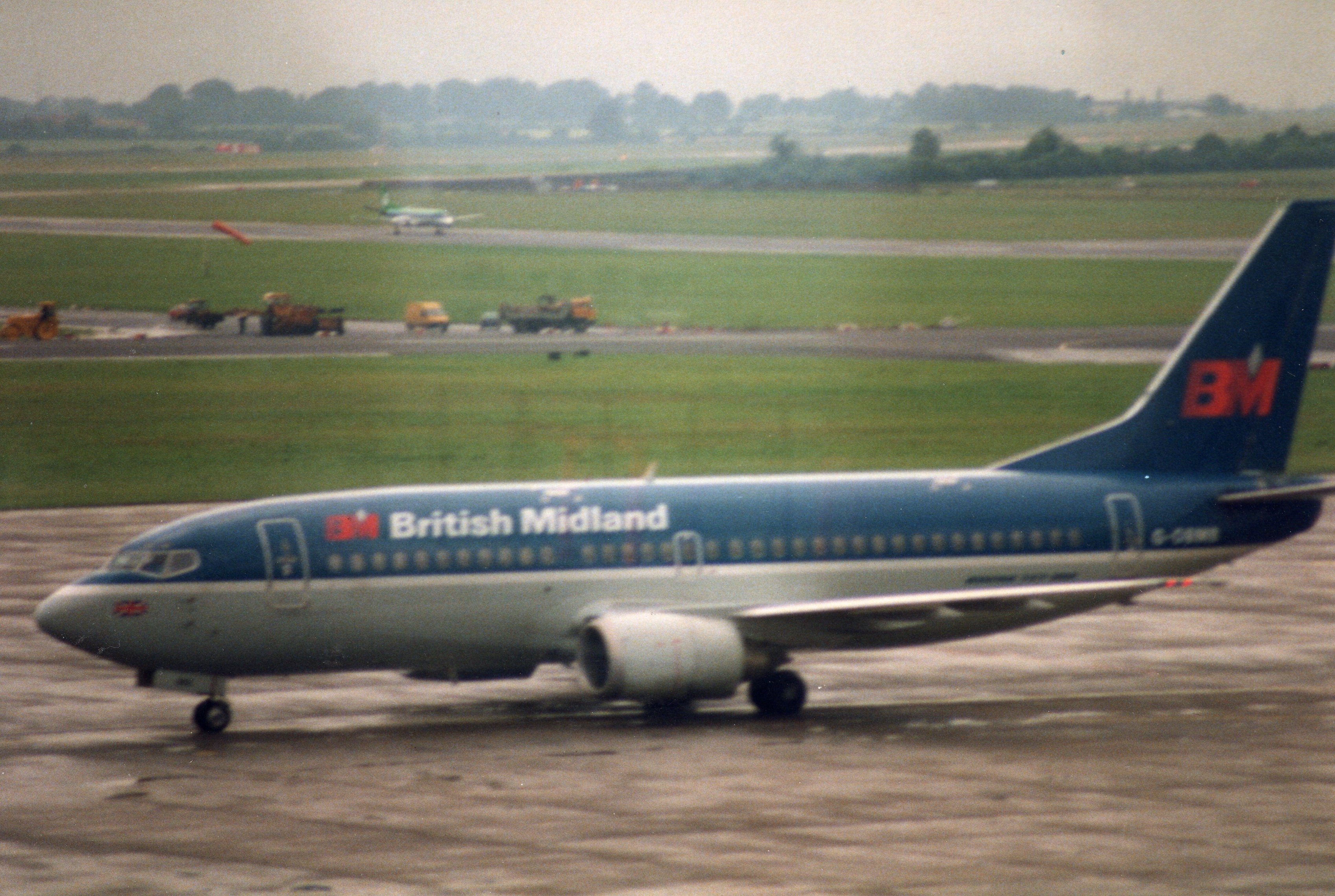 Bmi Boeing 737-300 aircraft, Dublin Airport, Dublin, Republic of Ireland, July 1992